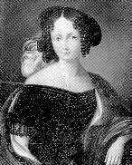 Swedish actress Emilie Högquist (1812 - 1846)